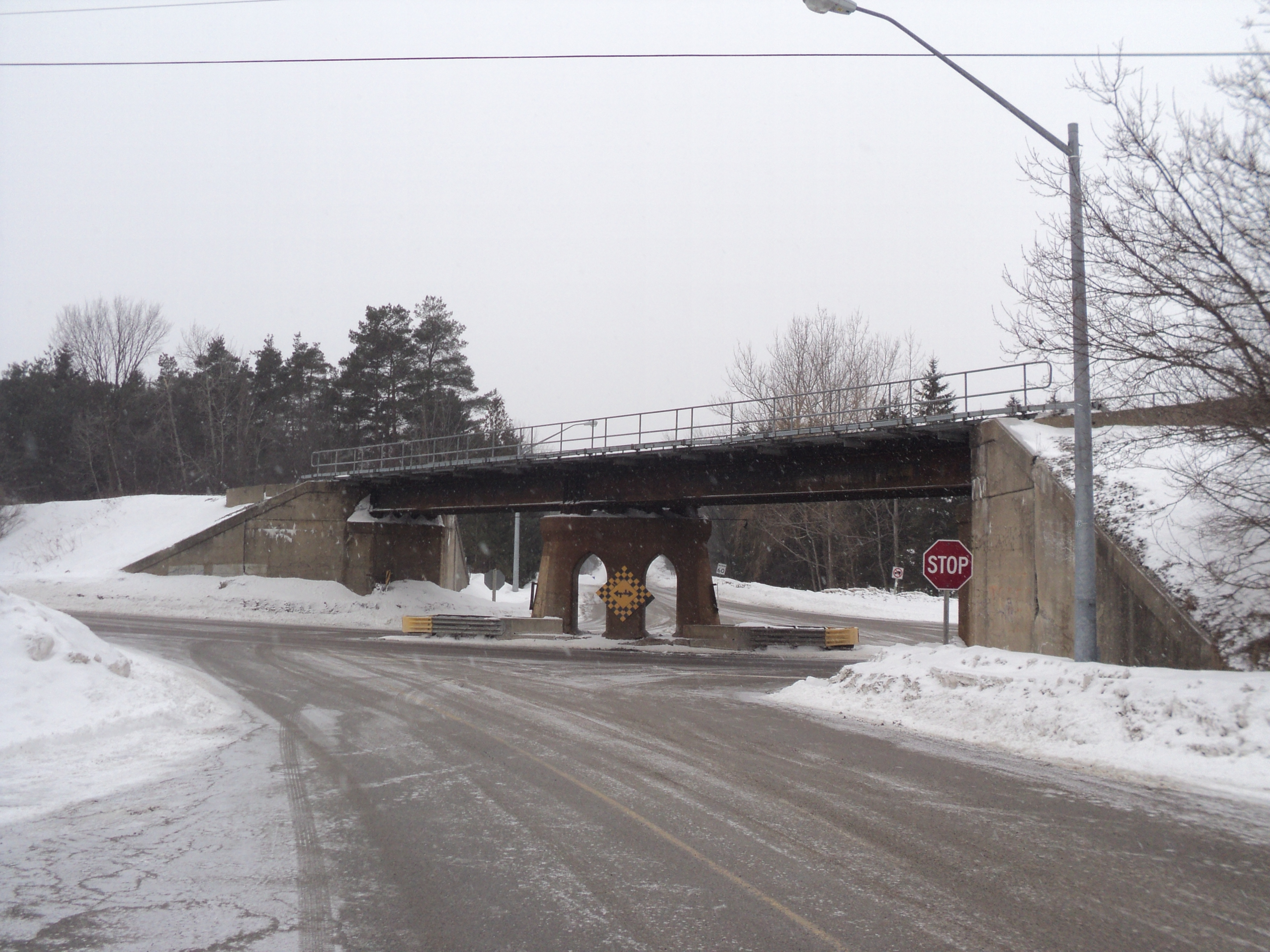 View of the Vandorf Sideroad CNR Bridge, taken from Vandorf Sideroad, looking west. Vandorf, Ontario.